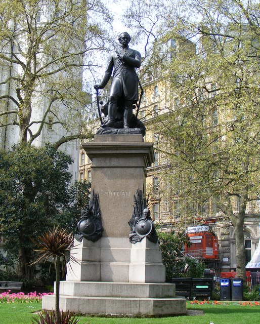 James Outram Statue in Victoria Embankment Gardens Work by Matthew Noble.